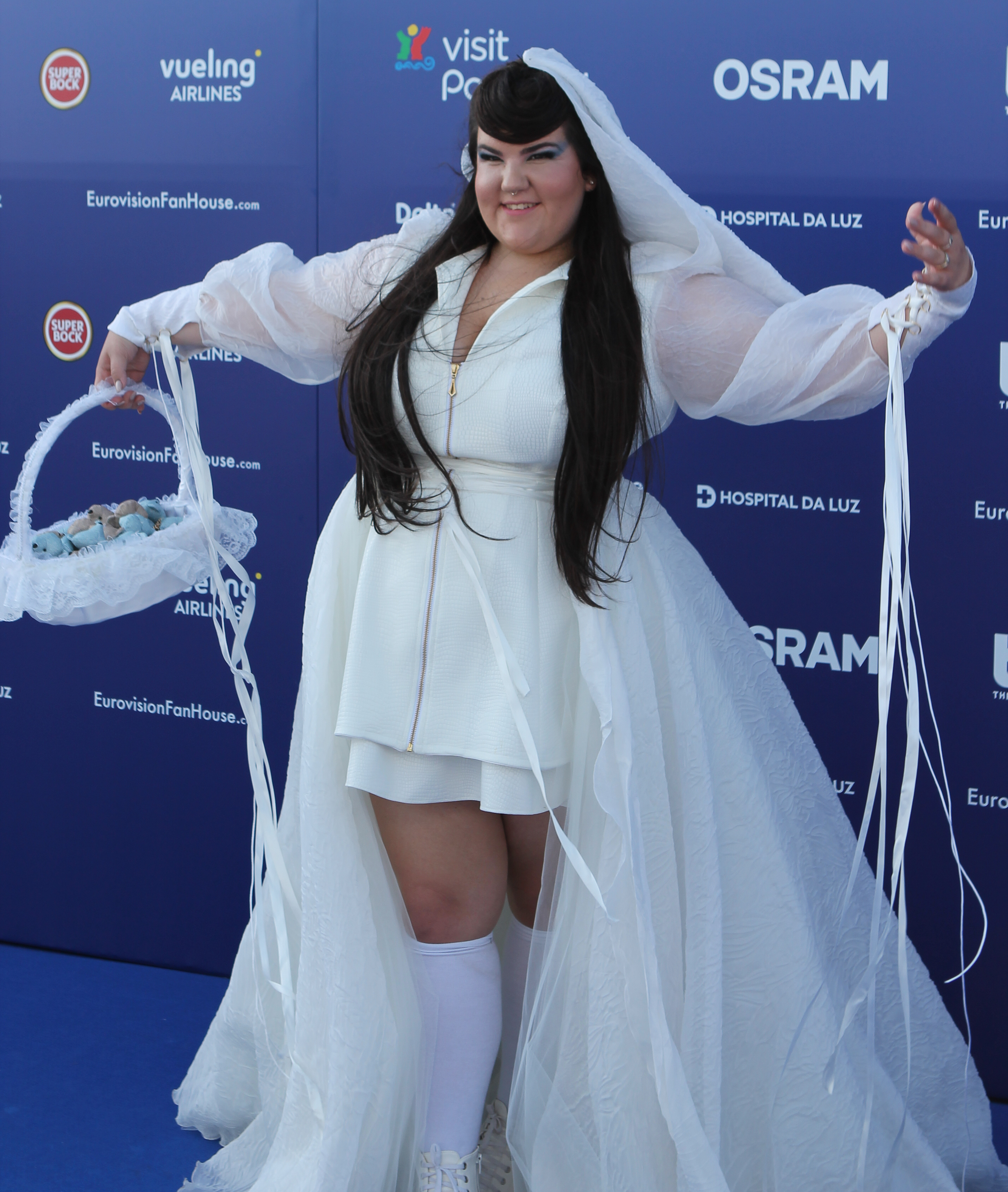 Netta Barzilai at the Eurovision Song Contest 2018 Blue Carpet event, 6 May 2018.